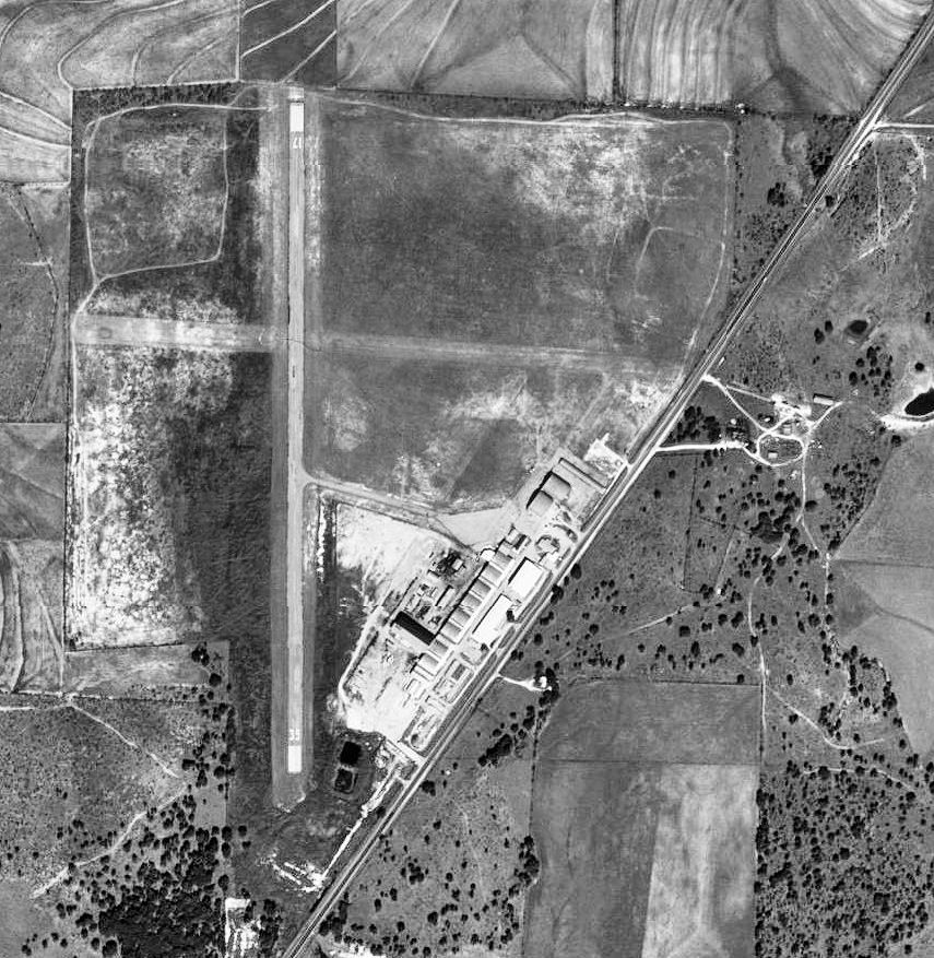 USGS orthophoto} of Curtis Field Airport in Brady, Texas